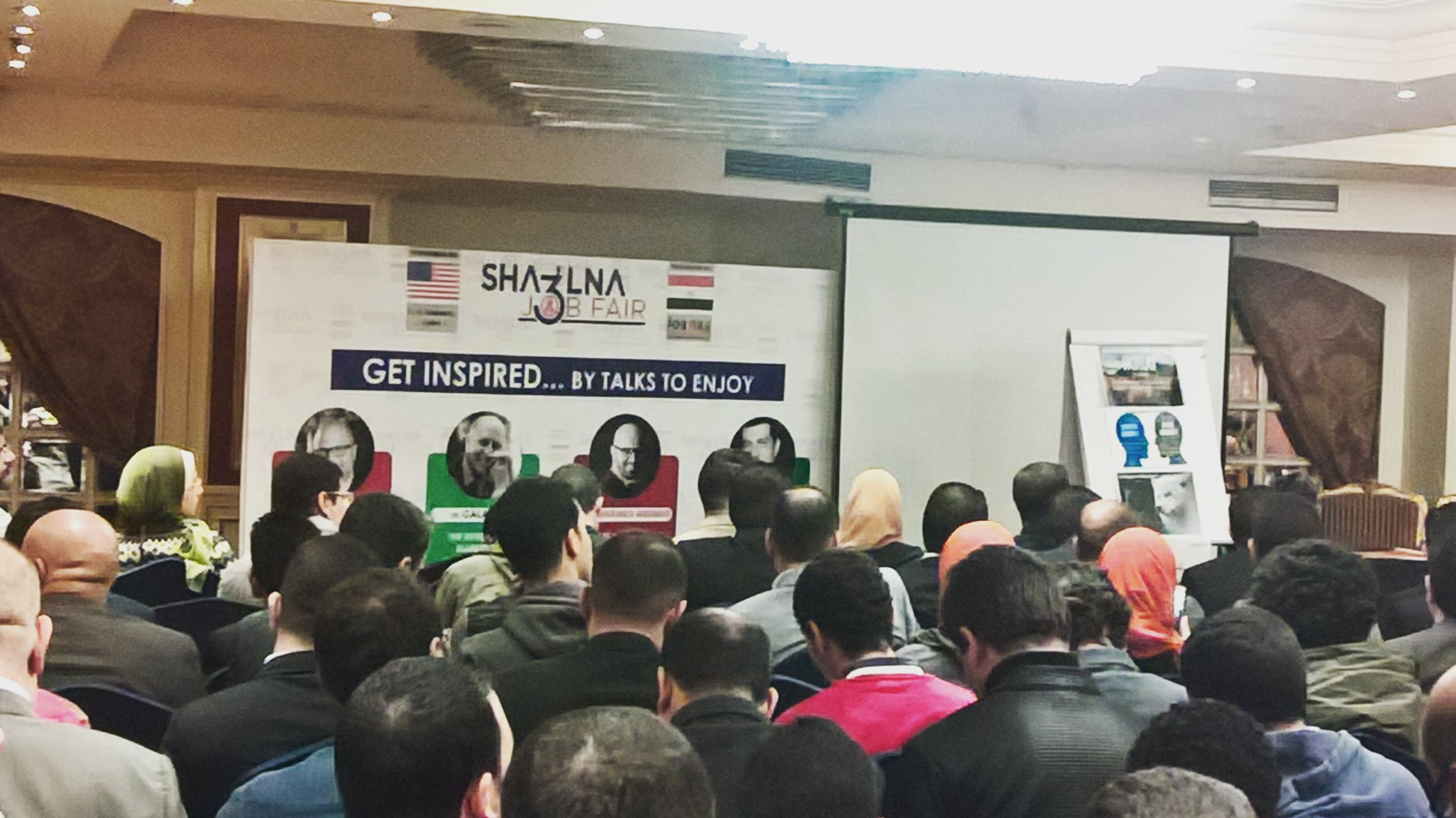 This is an image with the theme "Play" from: Egypt